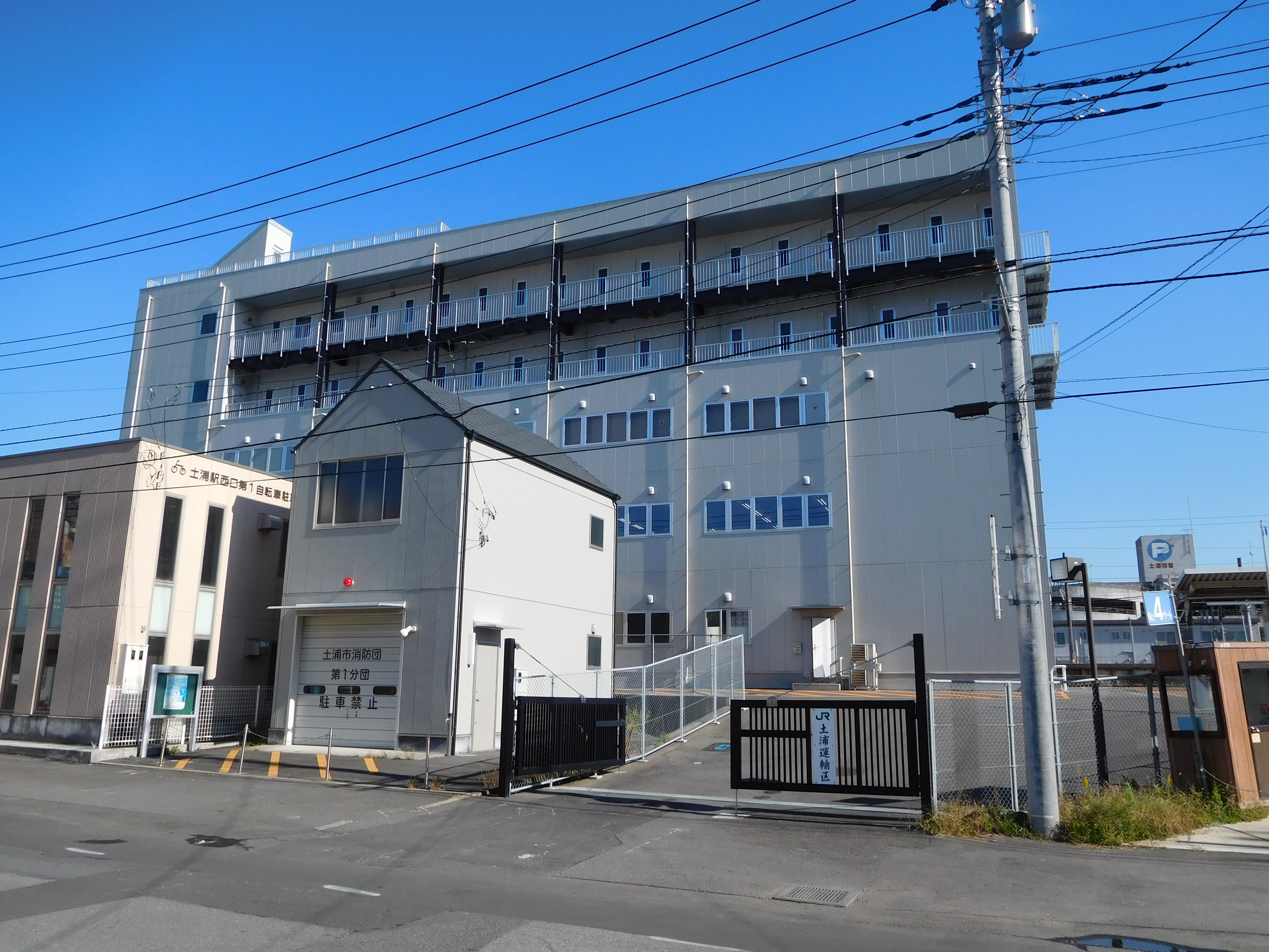 This is the Tsuchiura conductors' station of JR East in Tsuchiura, Ibaraki, Japan.